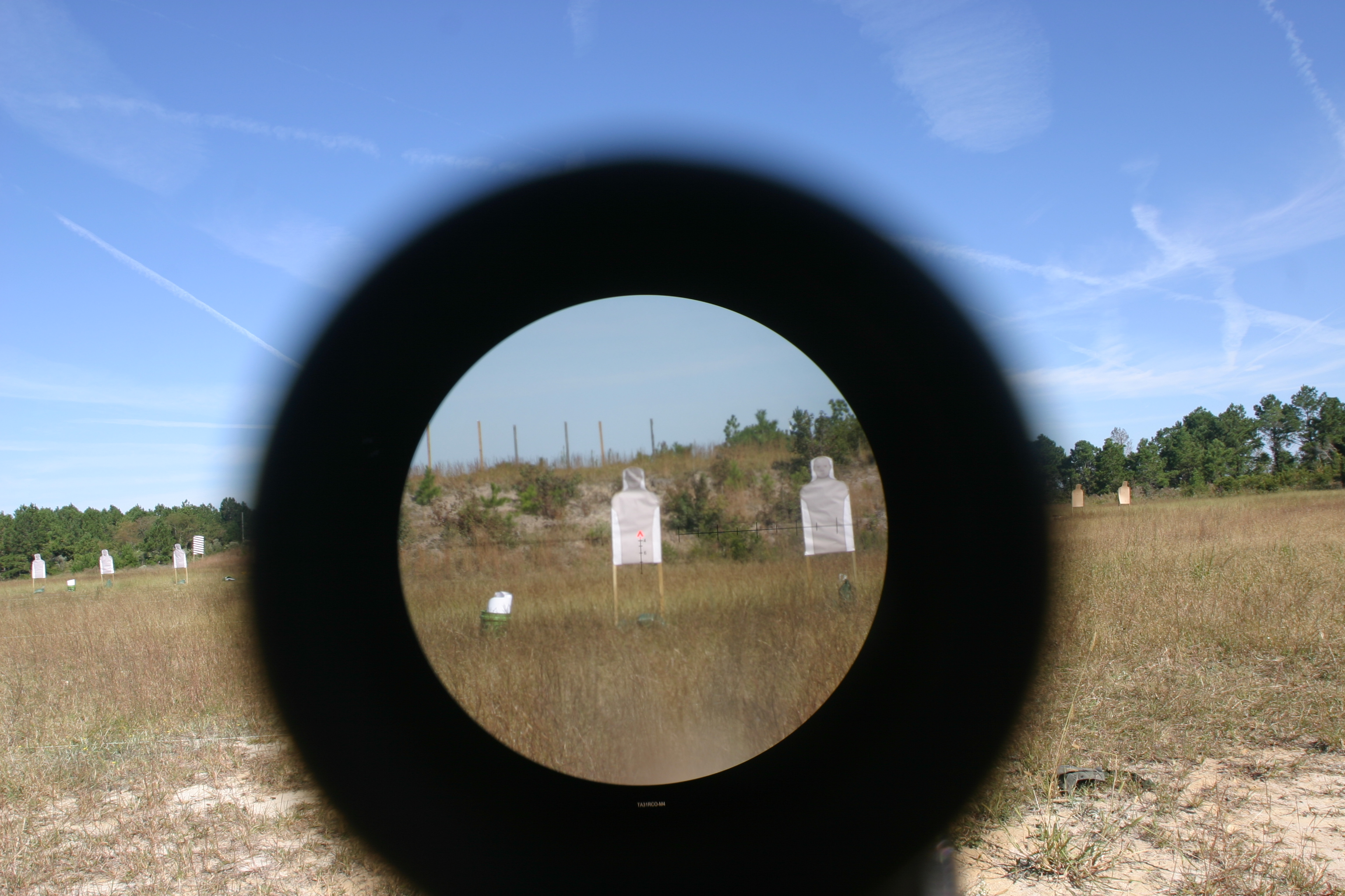 Using the Rifle Combat Optic Marines were able to quickly acquire and engage targets. Marines with Marine Special Operations Support Group, U.S. Marine Corps Forces, Special Operations Command became proficient with this equipment while participating in the Trainer’s Course of Instruction with the RCO at Stone Bay here recently.